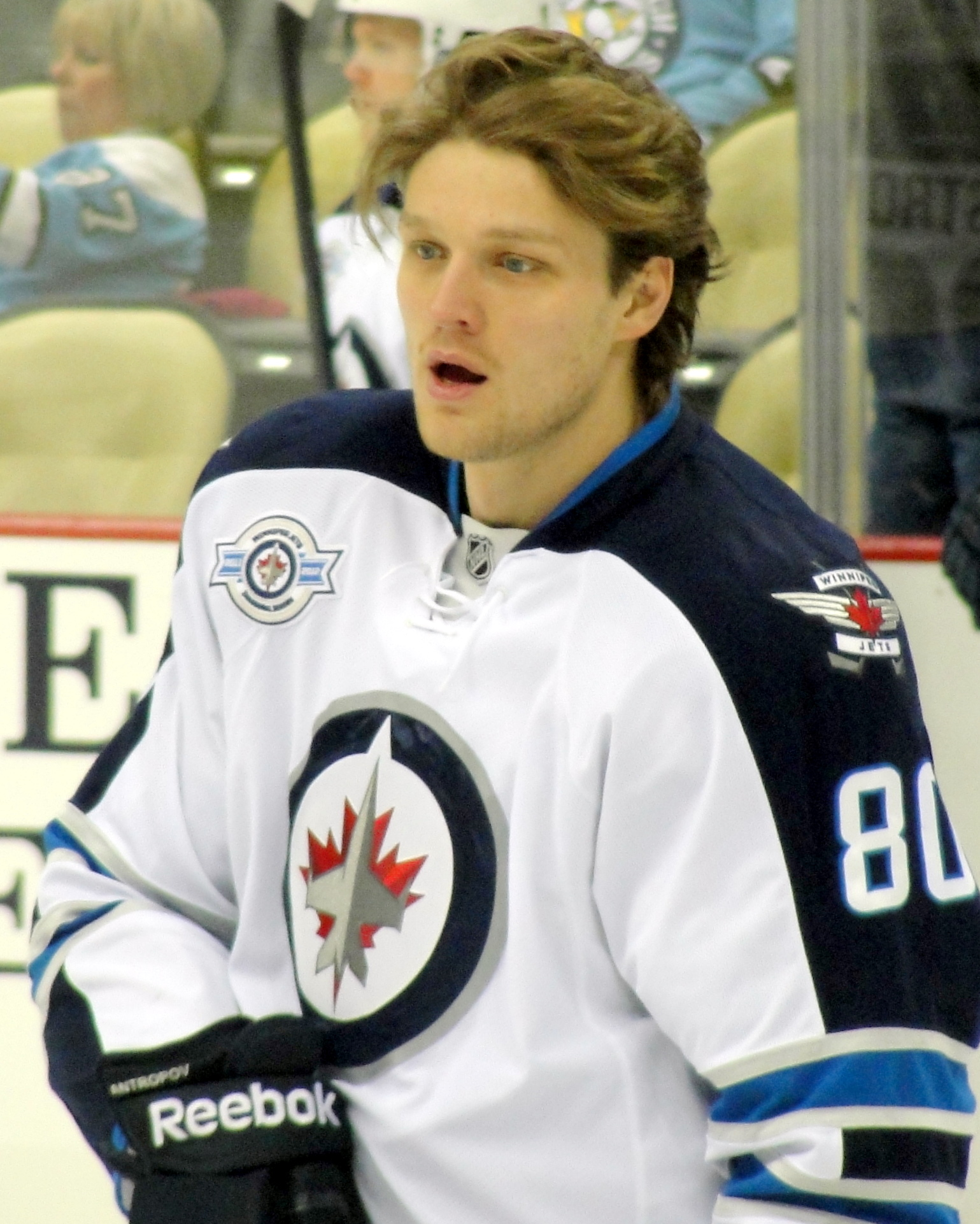 Nik Antropov of the Winnepeg Jets during a game against the Pittsburgh Penguins, February 11, 2012 at Consol Energy Center in Pittsburgh, PA.